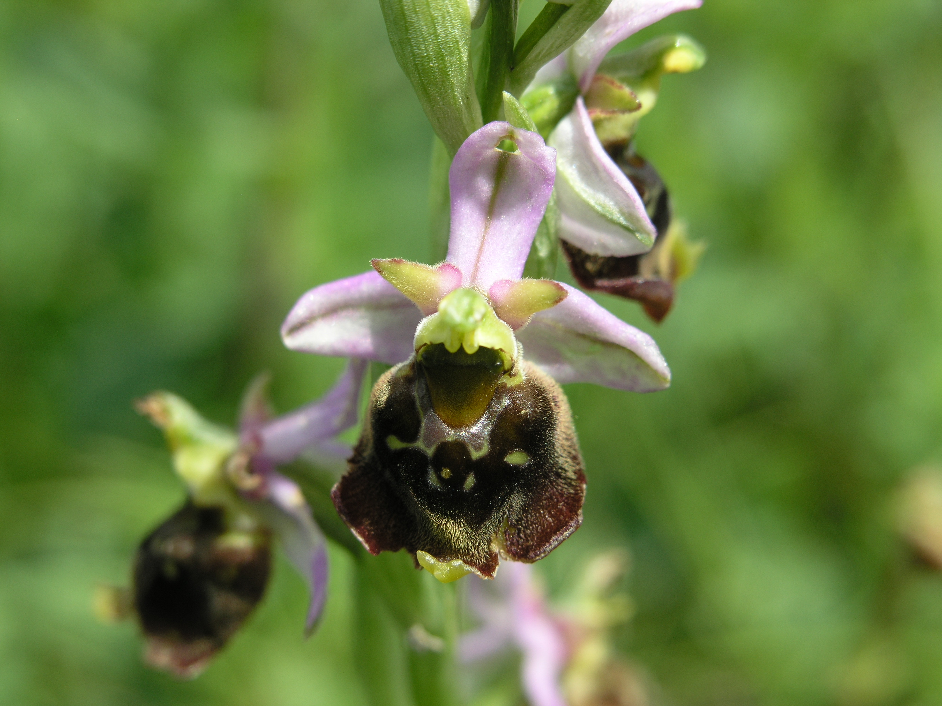 Ophrys holosericea found near Tübingen, Germany